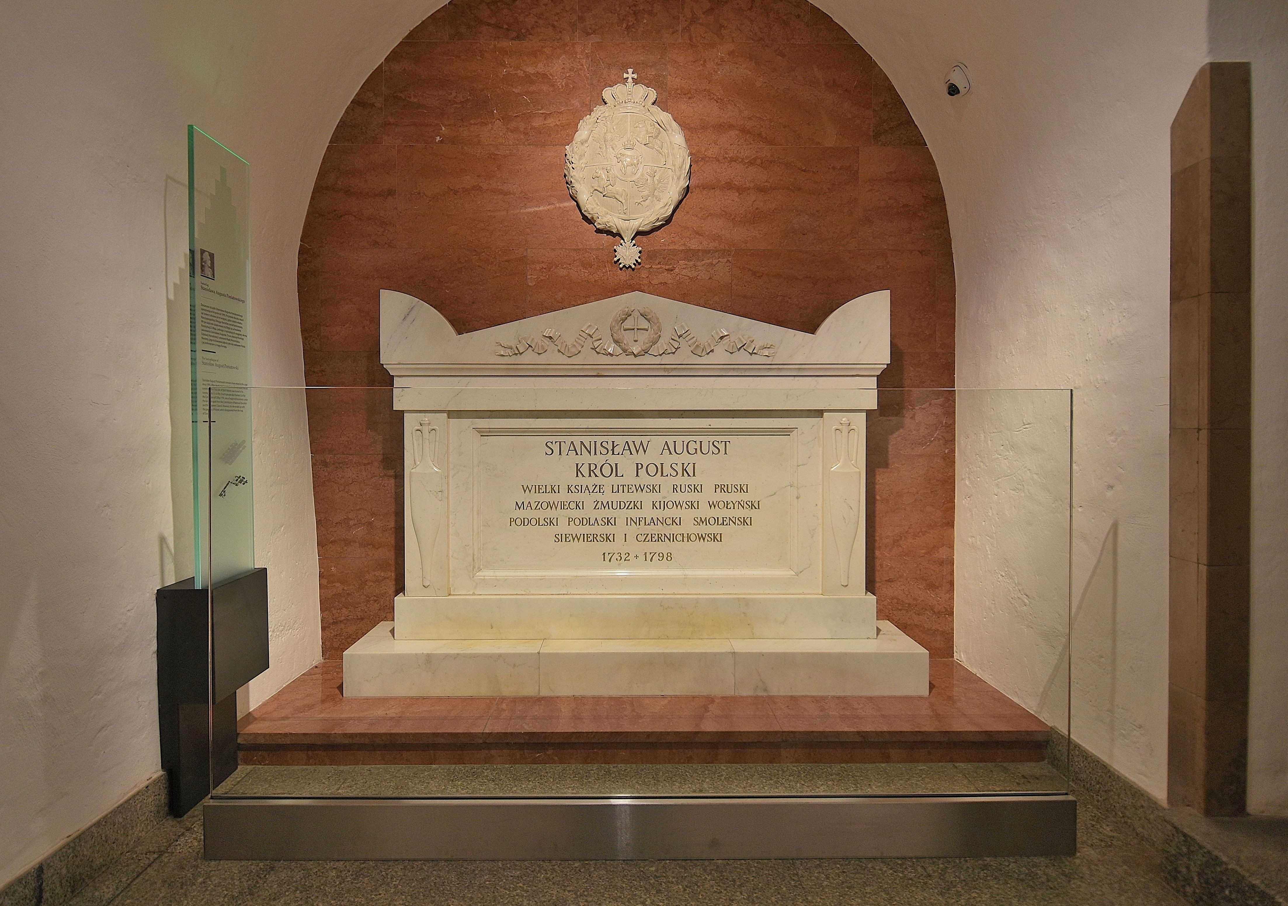 Tomb of Stanisław August Poniatowski at St. John's Archcathedral in Warsaw